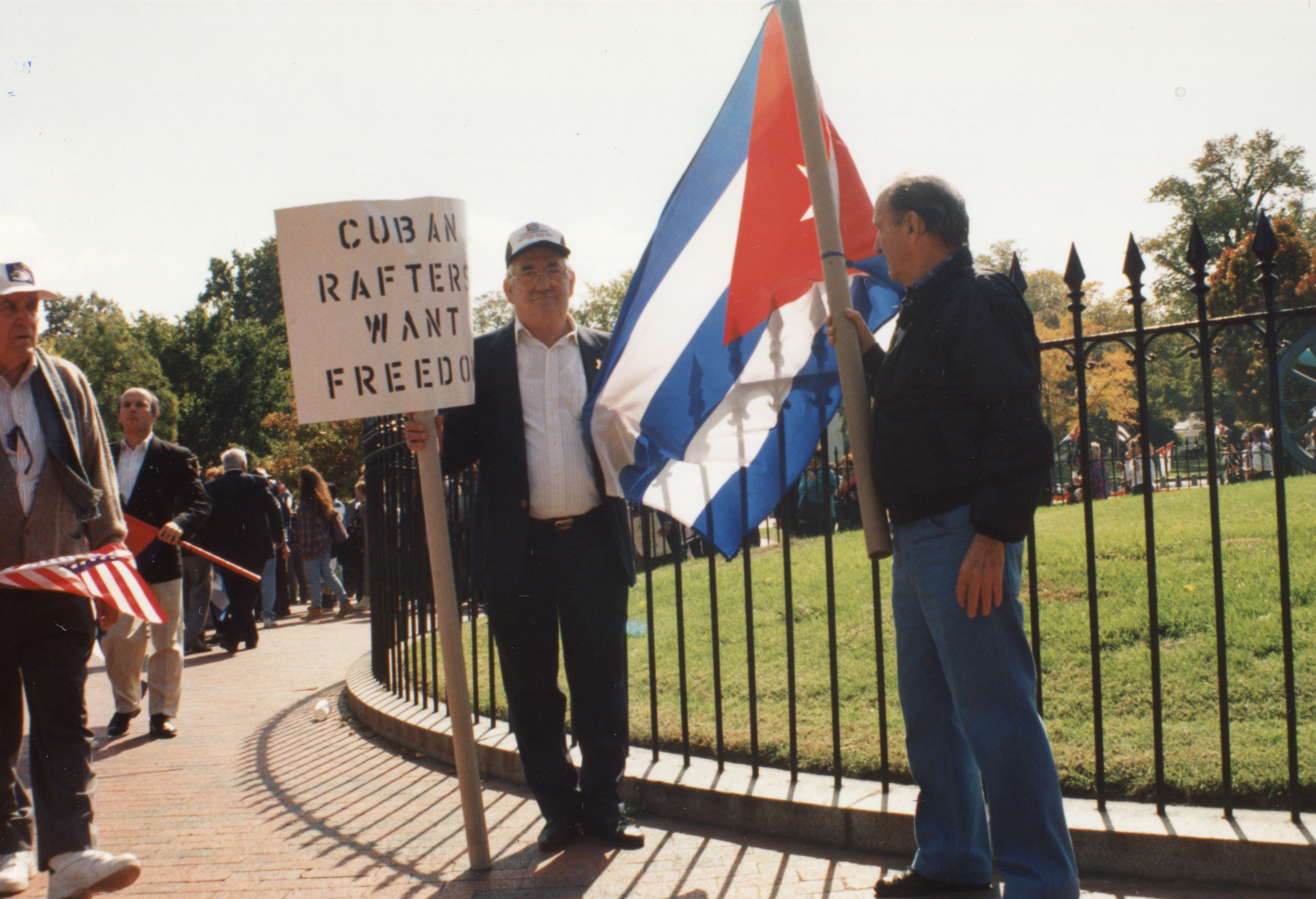 Cuban Rafter Crisis demonstration at Lafayette Park across from the WHITE HOUSE in the 1600 block of Pennsylvania Avenue, NW, Washington DC on Saturday, 22 October 1994 by Elvert Barnes Protest Photography Learn more about the CUBAN RAFTER CRISIS at Elvert Barnes PROTEST PHOTOGRAPHY at